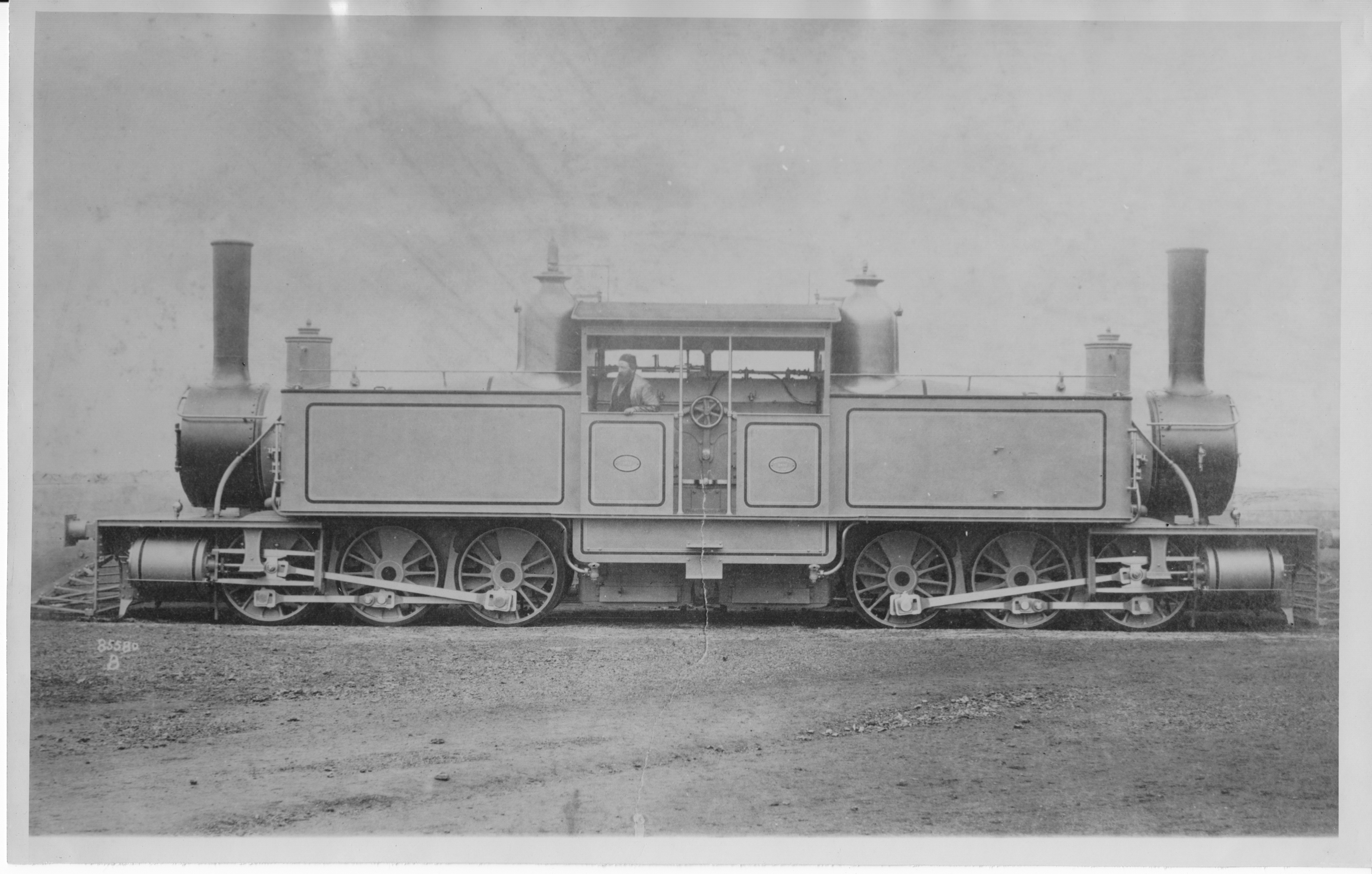 Fairlie 0-6-6-0 (Not a Cape Government Railways locomotive, could possibly be a Neilson for Ferrocarril Mexicano, perhaps works no. 3895, 3896 or 3897 of 1889)